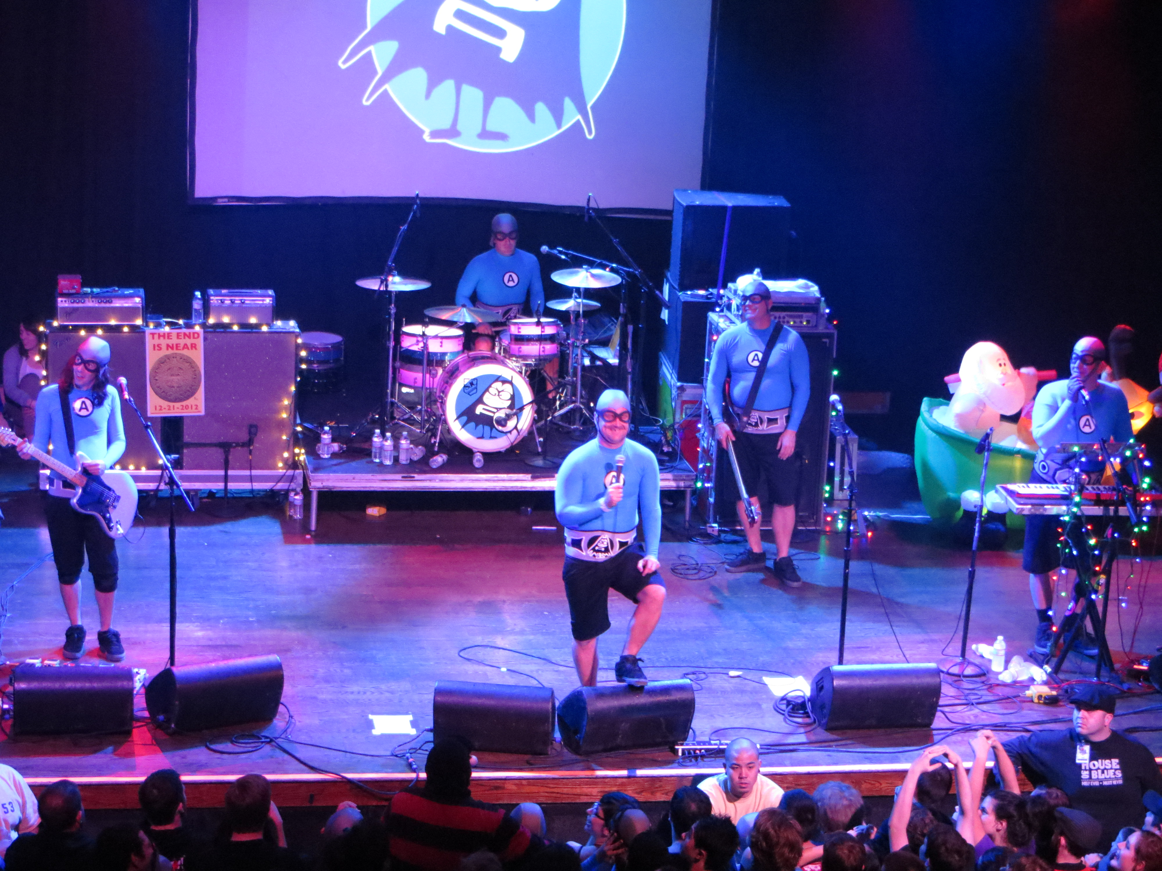 The Aquabats! At The HOB Anaheim 12/13/12